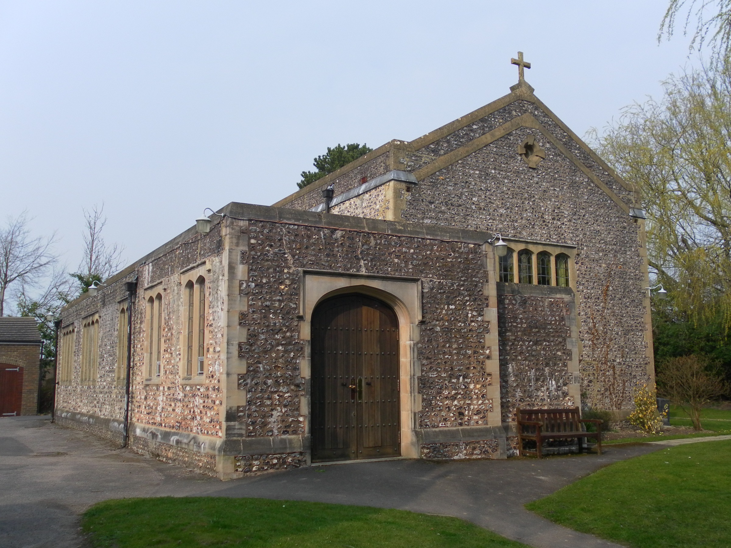 St Thomas of Canterbury's Church, Mayfield, Wealden District, East Sussex, England. The Roman Catholic parish church of the village of Mayfield.